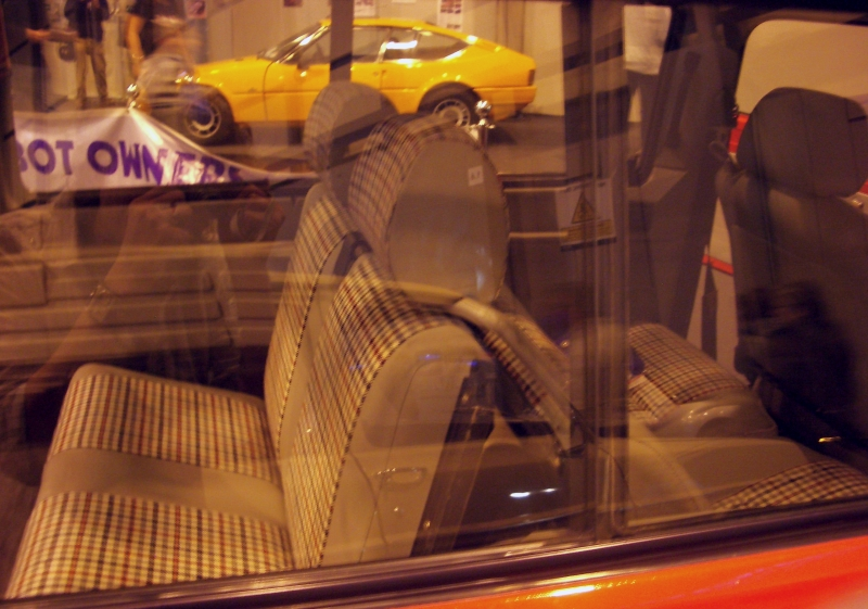 (Talbot) Matra Ranch (car) showing third row of seats sharing headrest with normal rear seats